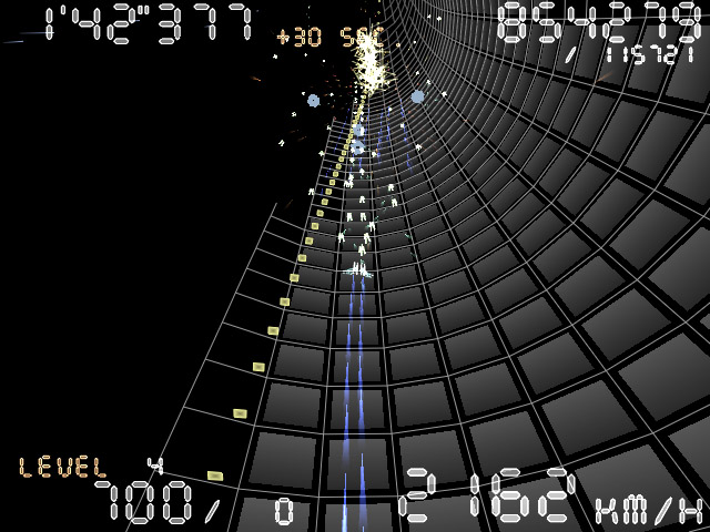 Screenshot of the freeware video game Torus Trooper